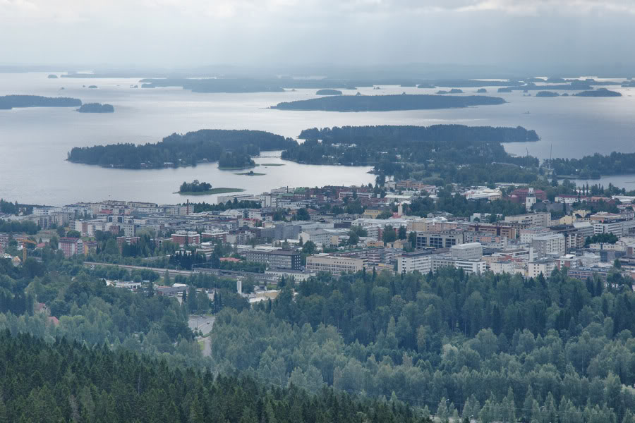 Kuopio from tower of Puijo